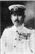 Suminobu Takegaki is an Imperial Japanese Navy commander